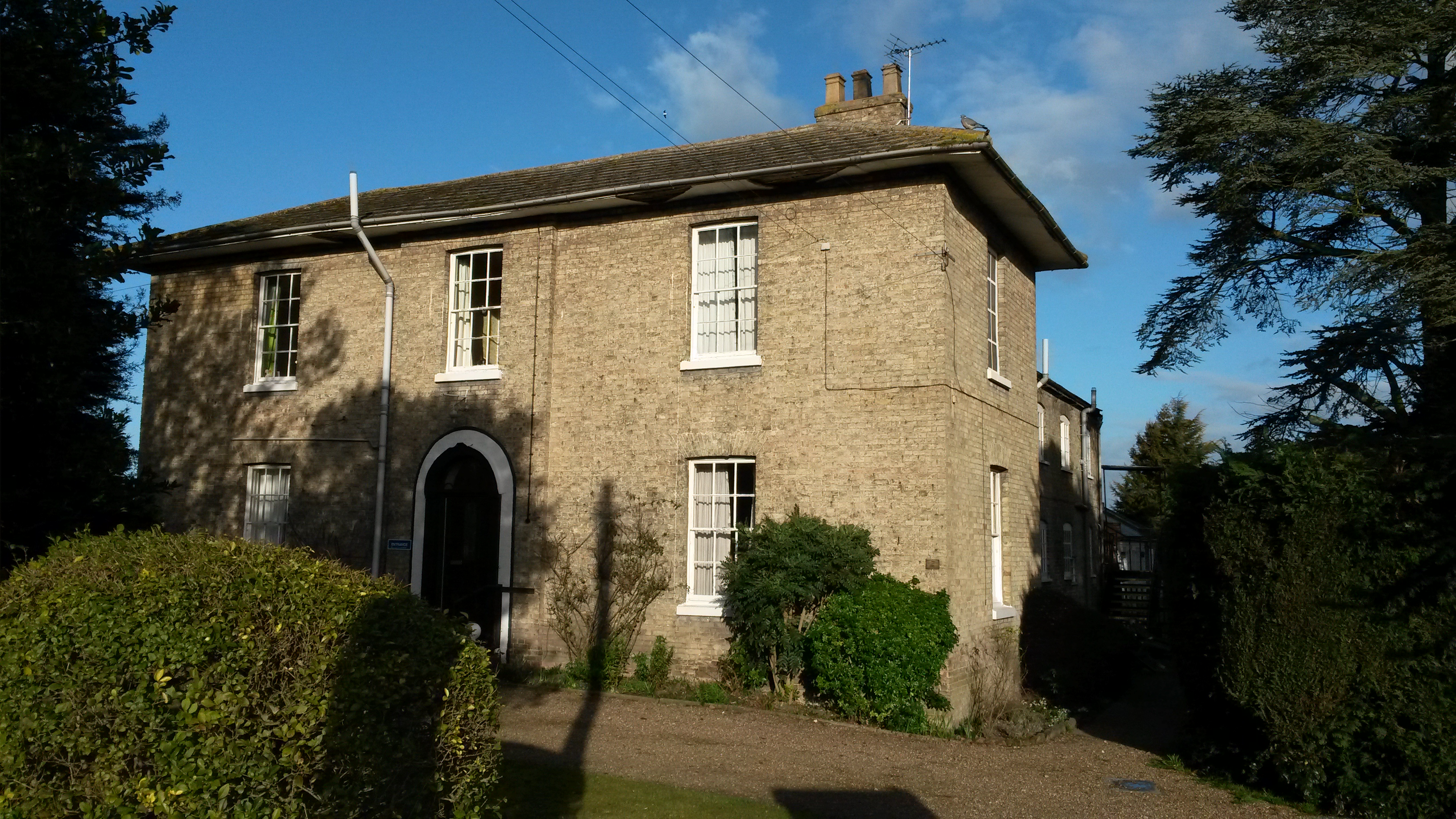 Skellingthorpe Farm, established 1813: historic building in the parish.